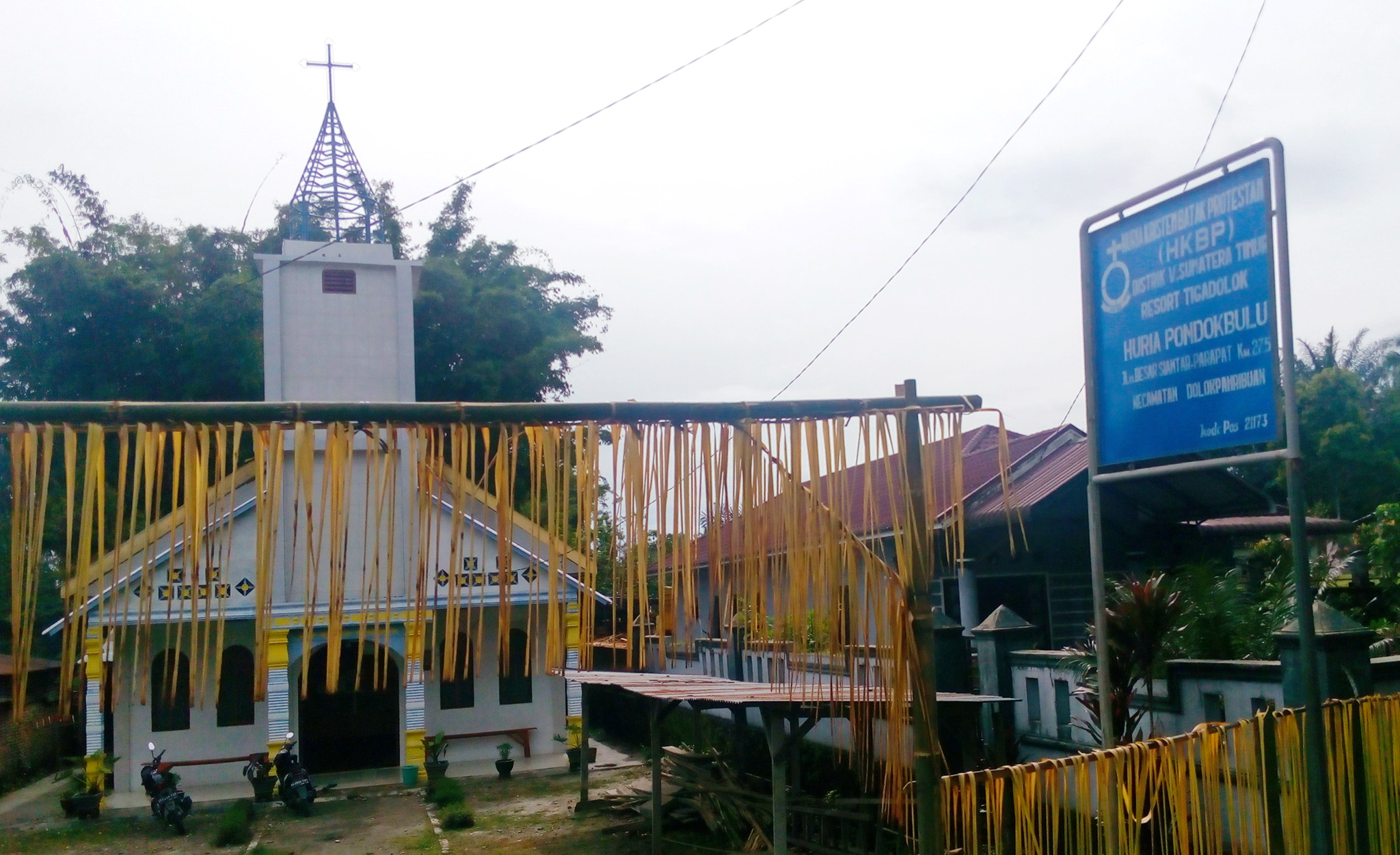 HKBP Pondok Bulu, Church in Pondok Bulu, Dolok Panribuan, Simalungun